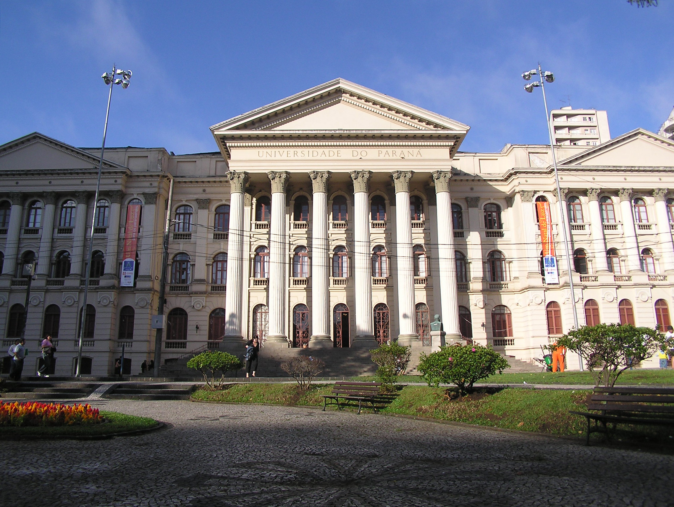 Universidade Federal do Paraná(UFPR, Federal University of Parana). The oldest university in Brazil. Founded in 1912.